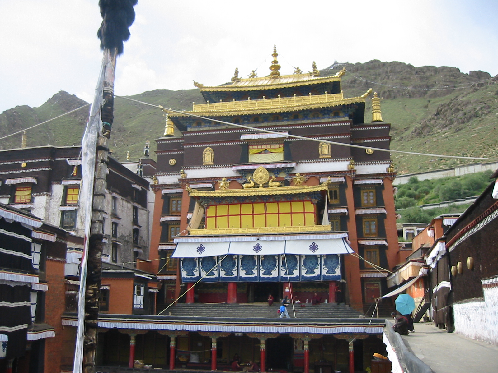 Tashilhunpo Monastery, located in Shigatse, Tibet Autonomous Region, China. Photographed by wiki user: Mongol, in 2002 Aug.